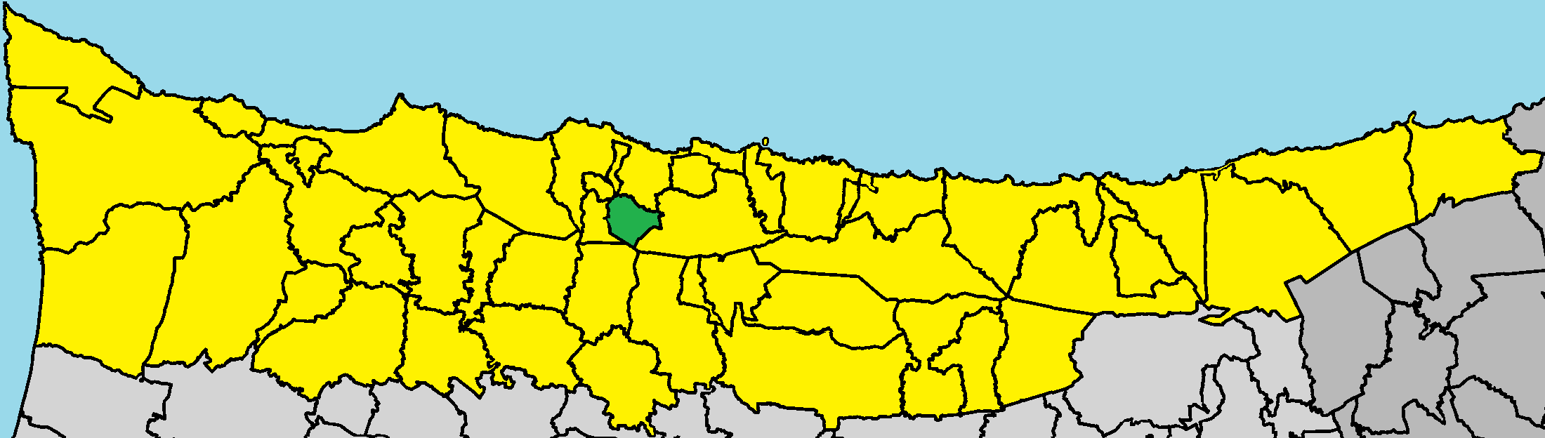 Ftericha in Kyrenia District (de jure).